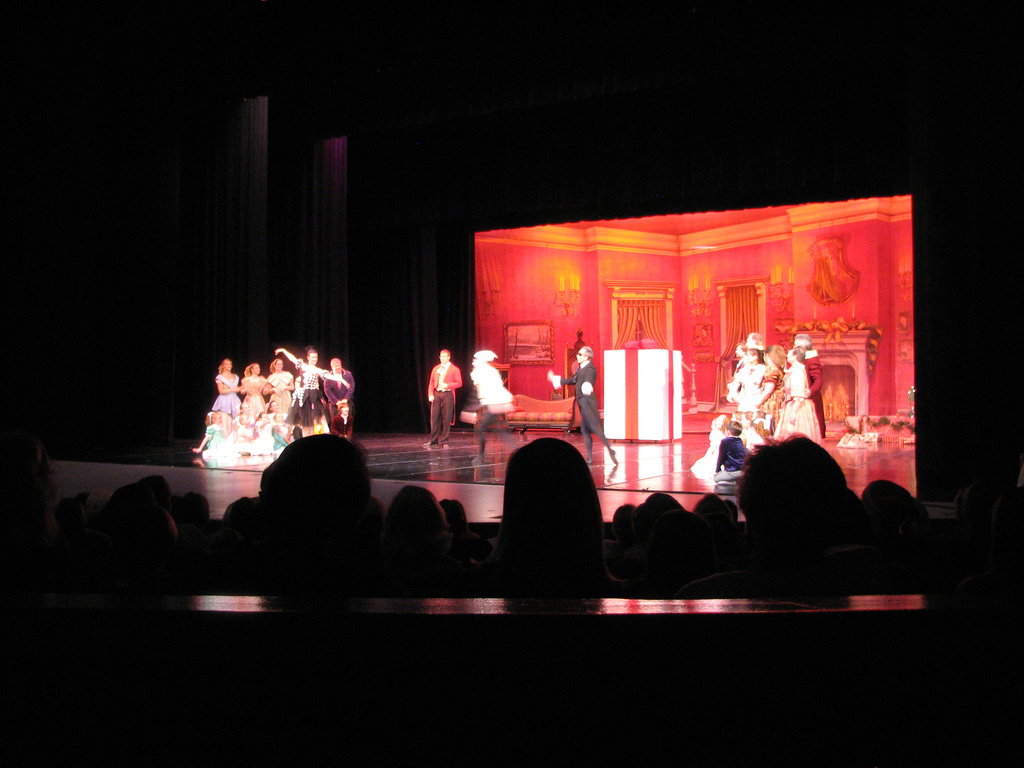 Birmingham Ballet's Nutcracker